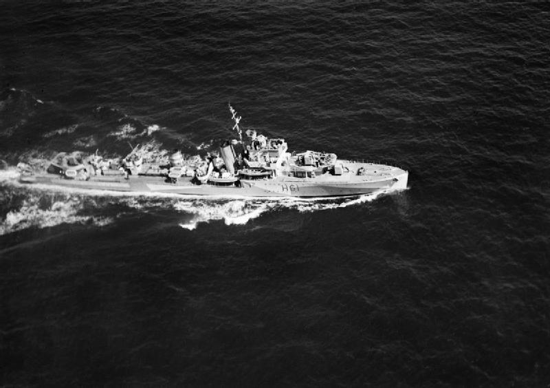 Aerial photograph of Royal Navy destroyer HMS Express underway. She was transferred to the Royal Canadian Navy as HMCS Gatineau in 1943.